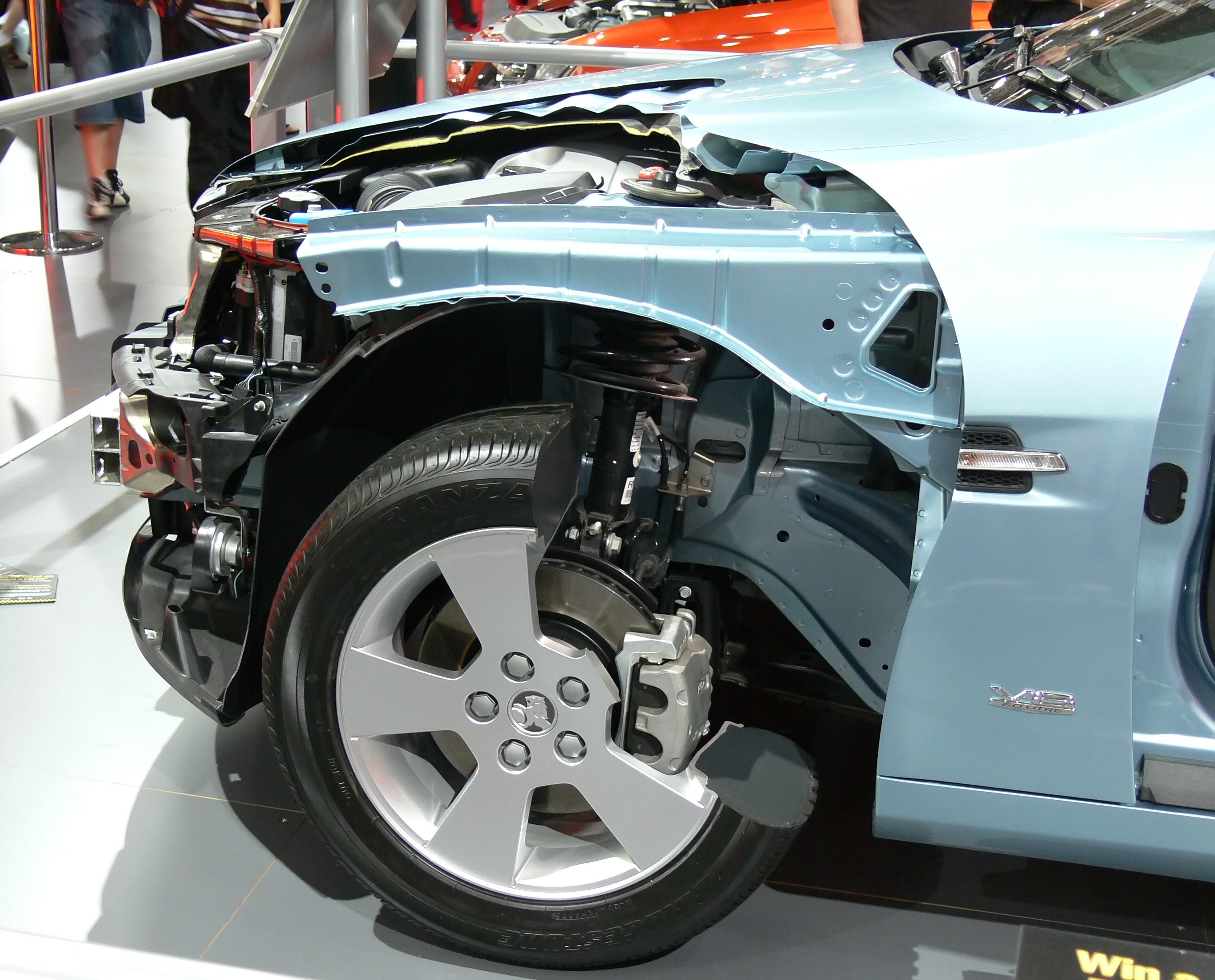 Cutaway of a 2006–2007 Holden VE Calais sedan, photographed at the 2007 Melbourne International Motor Show.